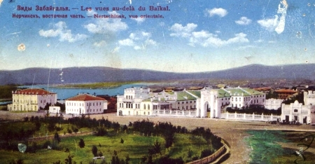 Nerchinsk postcard dated 1900: Butin's Palace